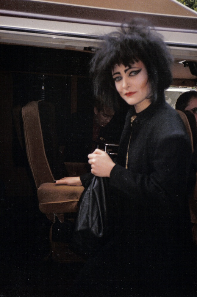 Subject: Siouxsie Sioux of Siouxsie & the Banshees Date: June 1, 1986 Place: Oakland, California, USA (Unknown hotel lobby) Photographer: Andwhatsnext Original 35mm photograph scanned Credit: Copyright (c) 1986 by Nancy J Price